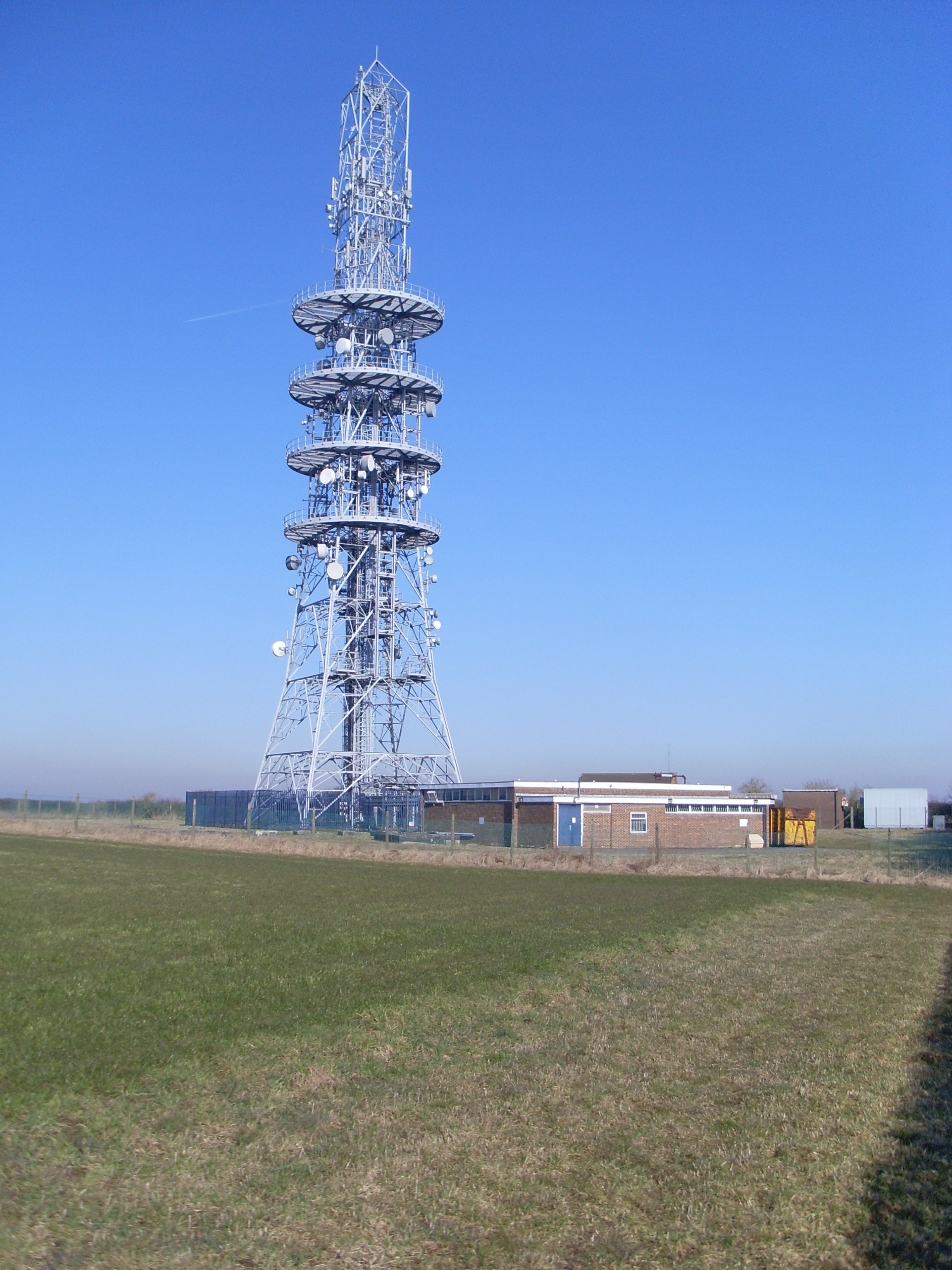 BT Radio Station, Tuxford. Situated off the A6075 Ollerton Road, this radio station is one of several in the United Kingdom providing microwave links for telecommunication, radio and television usage. Also, it is fitted with red aircraft warning lights, which means it can be seen at night for miles around. Its postcode is NG22 0PD.